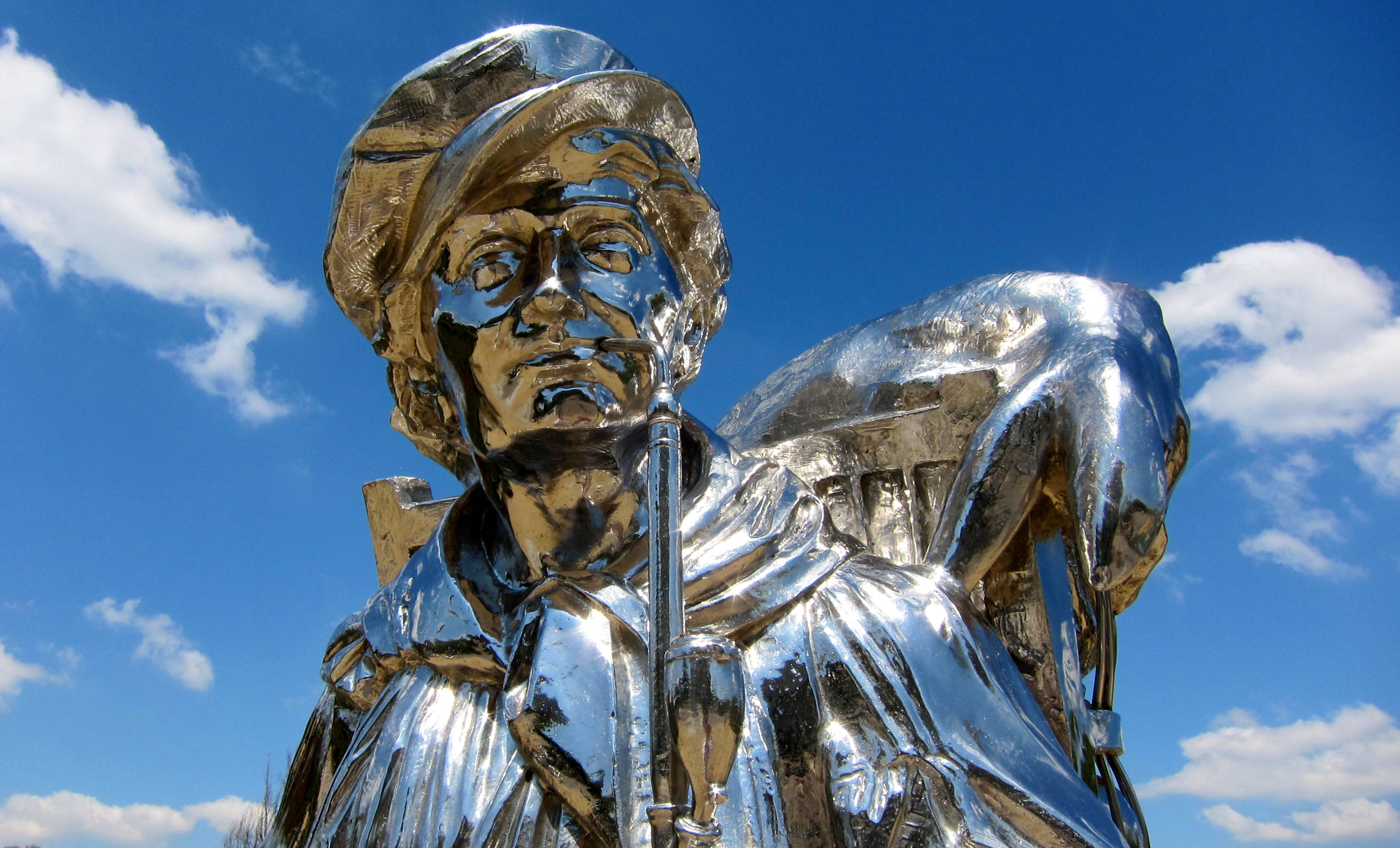 Kiepenkerl, a 1987 stainless steel sculpture located in the Hirshhorn Museum's Sculpture Garden, on the National Mall in Washington, D.C.